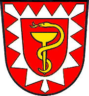 Coat of arms of Bad Nenndorf